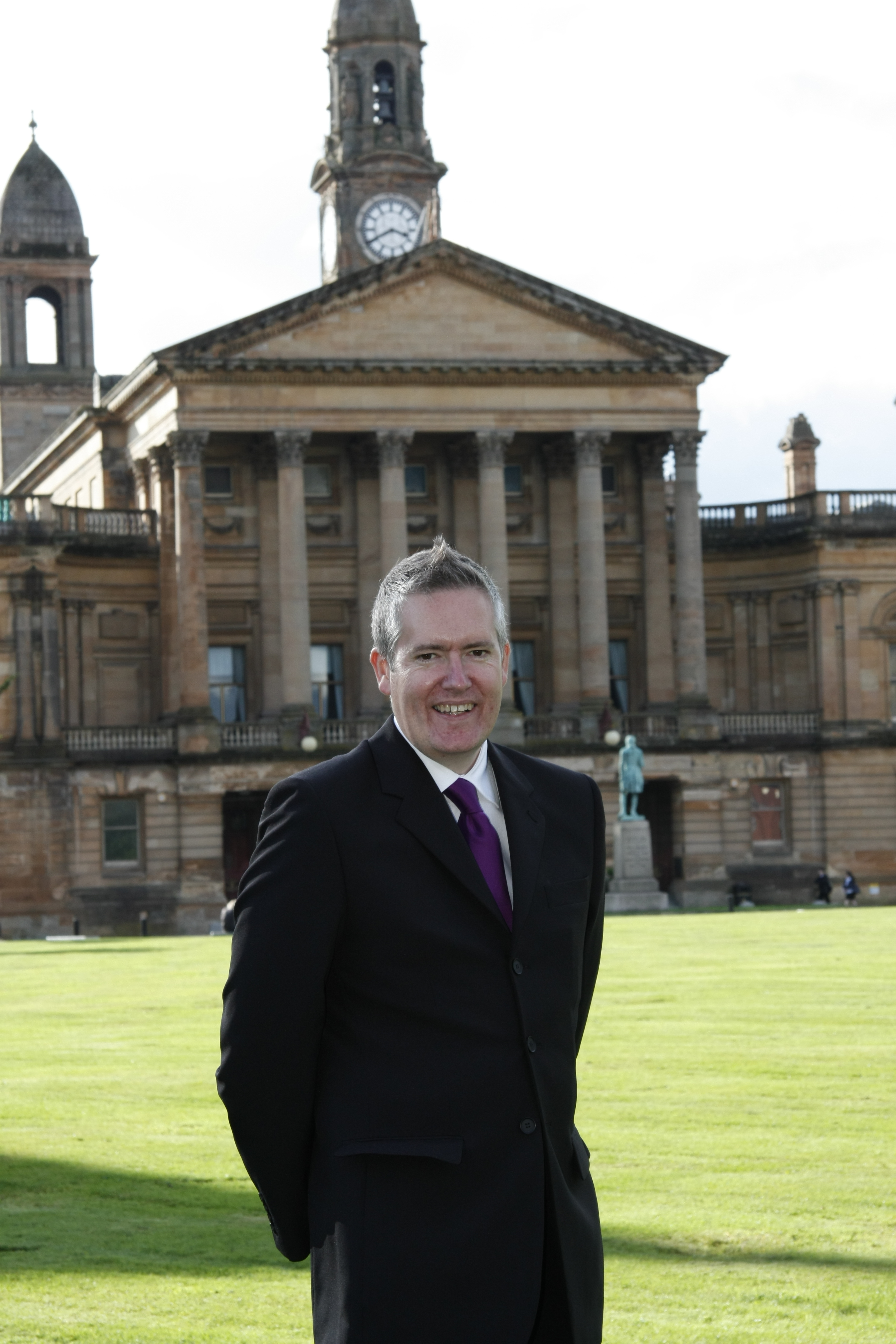 George outside Paisley'sTown Hall